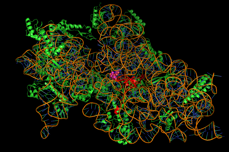 Structure of Thermus thermopiles 30S ribosomal subunit in complex with streptomycin (spheres, center). Made with Pymol from PDB entry 1FJG